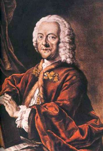 Georg Philipp Telemann, after a lost painting by Ludwig Michael Schneider (1750)